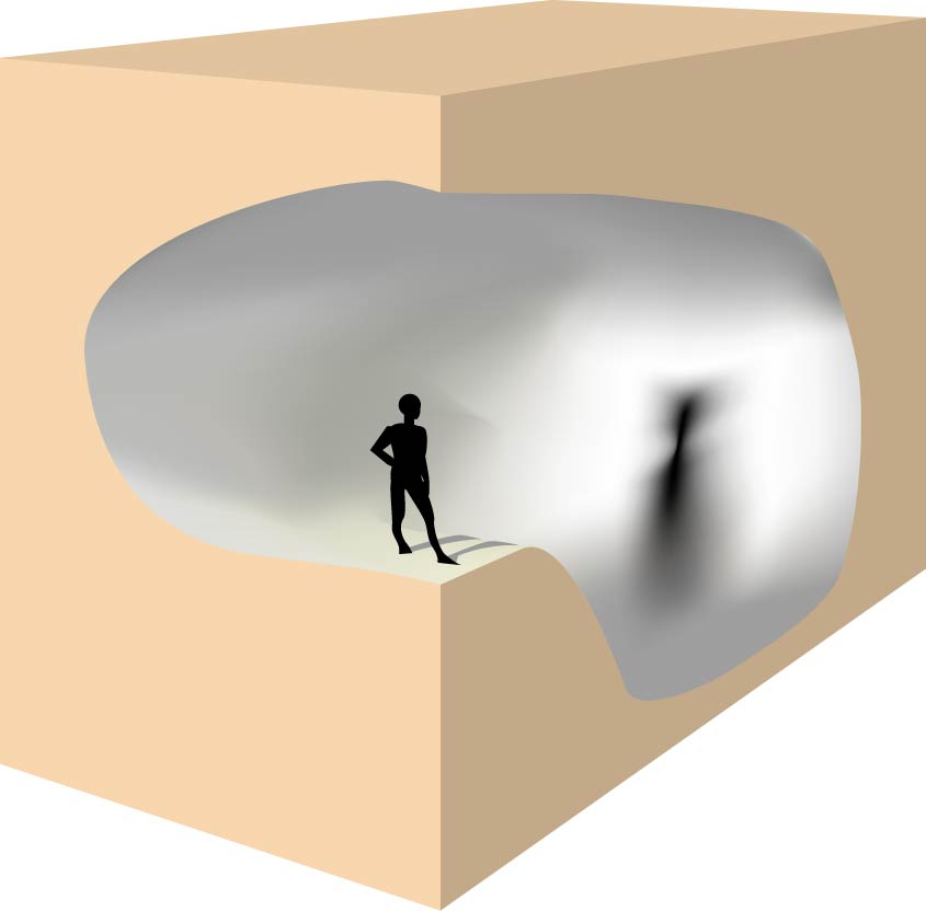 Silhouette of a woman in a cave looking at her own shadow. The image can be used in philosophy (for example in Allegory of the cave) as well as to show psychological principles (for example Borderline personality disorder).